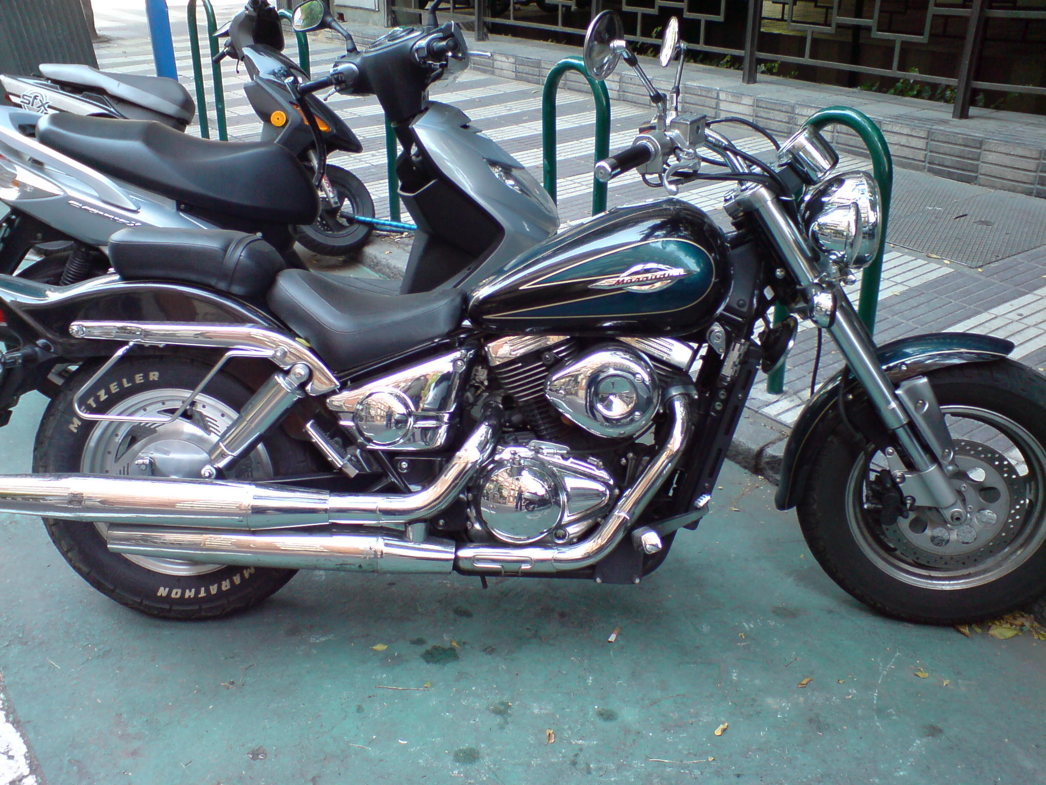 Suzuki VZ 800 Marauder